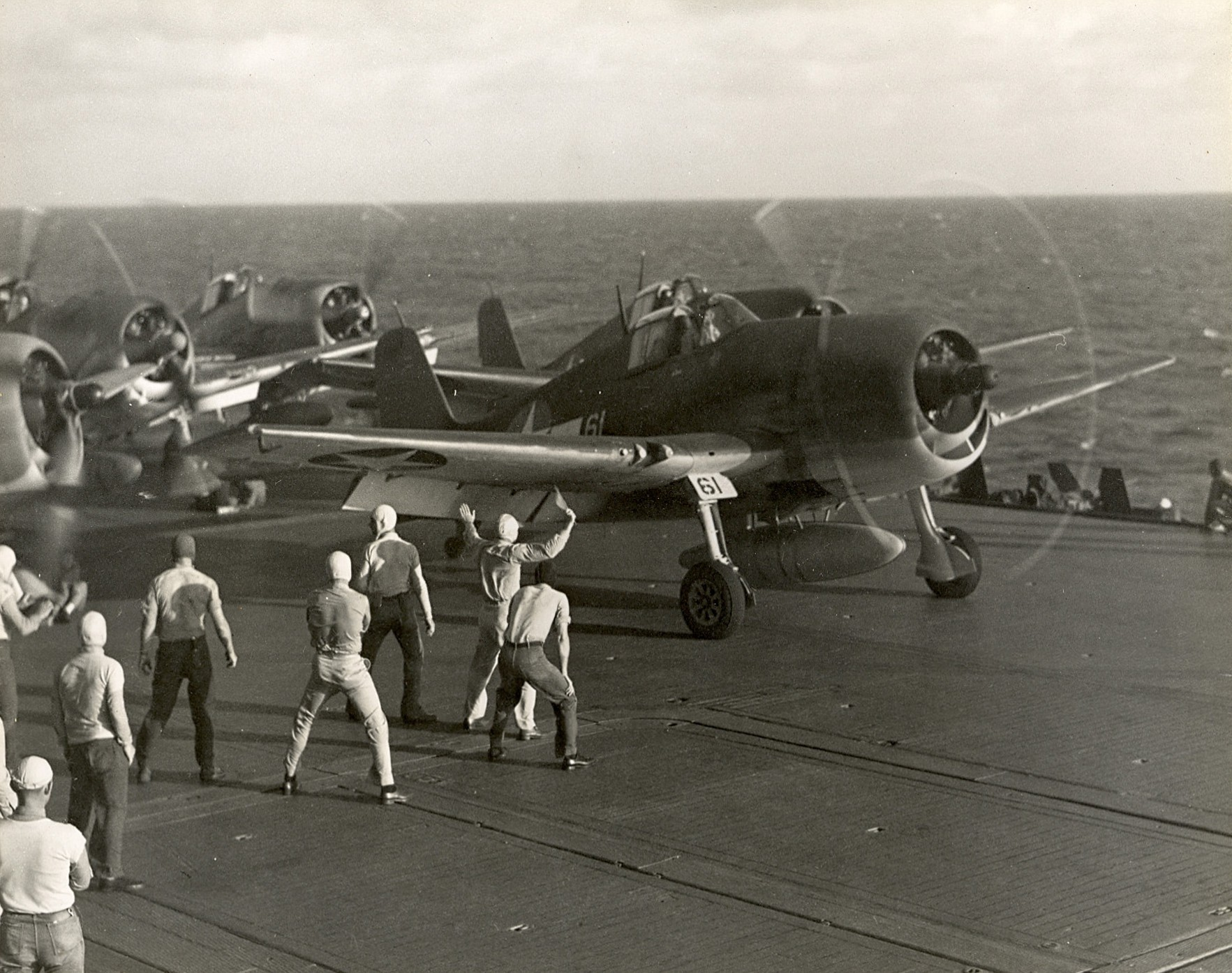 A U.S. Navy Grumman F6F-3 Hellcat flown by Commander Joseph C. Clifton prepares to launch from the carrier USS Saratoga (CV-3) bound for Tarawa in the Gilbert Islands, in late November 1943. Note that the Hellcats are in various states of changes of the national insignia, which had been ordered three months before. However, in contrast to all other fleet carriers, Saratoga had been active in the Solomons for the most part of 1943 and marking changes were only applied in the field.